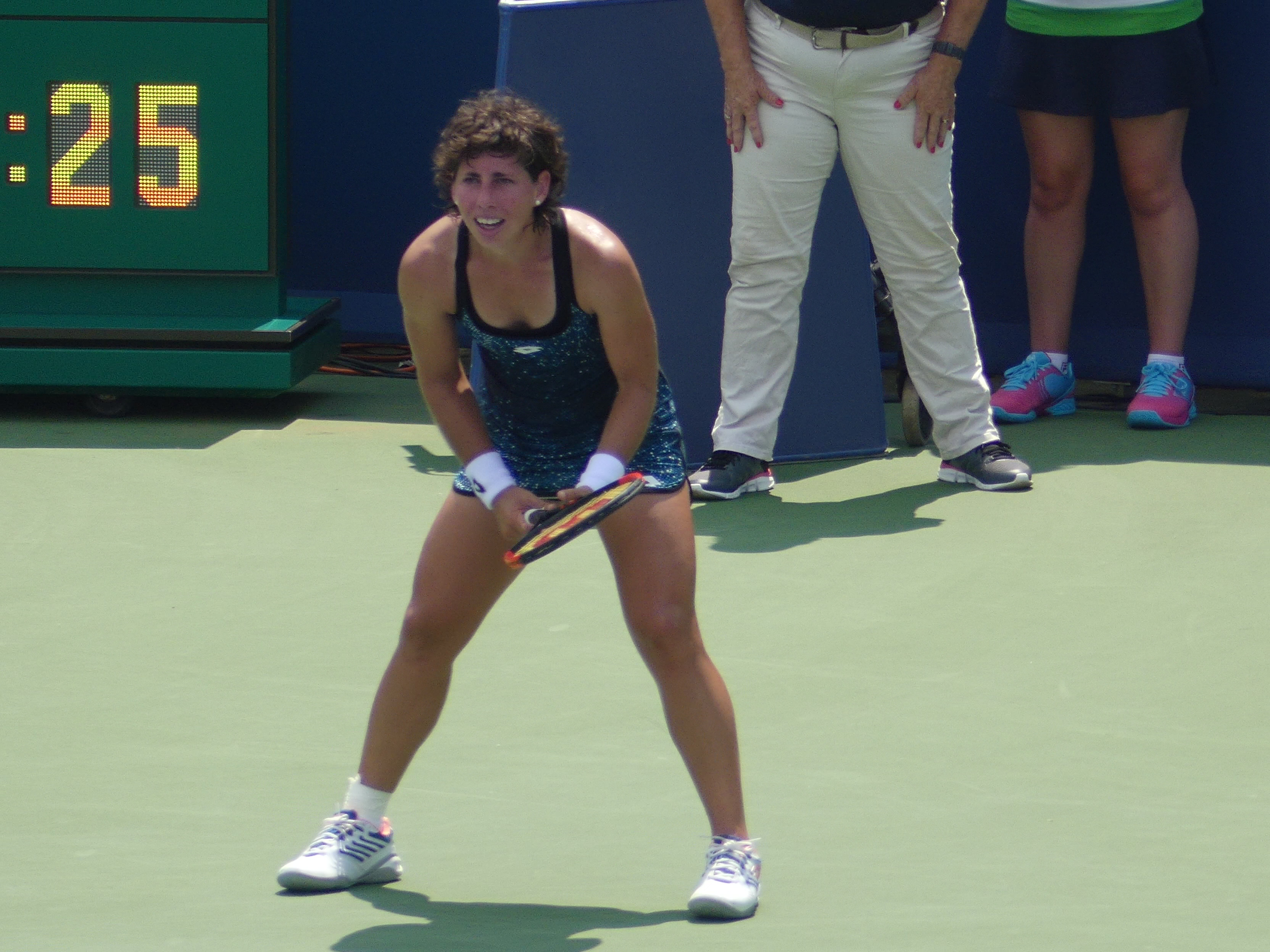 Carla Suárez Navarro during her first round match of the 2018 Western and Southern Open against Victoria Azarenka.